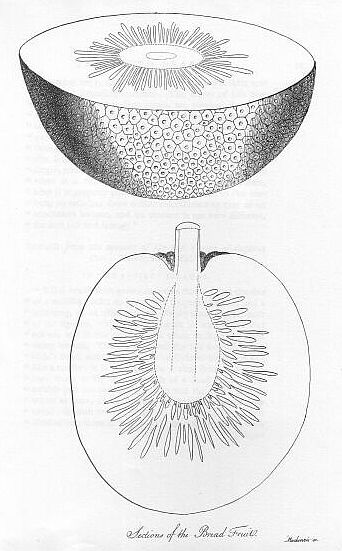 Sections of the Bread Fruit